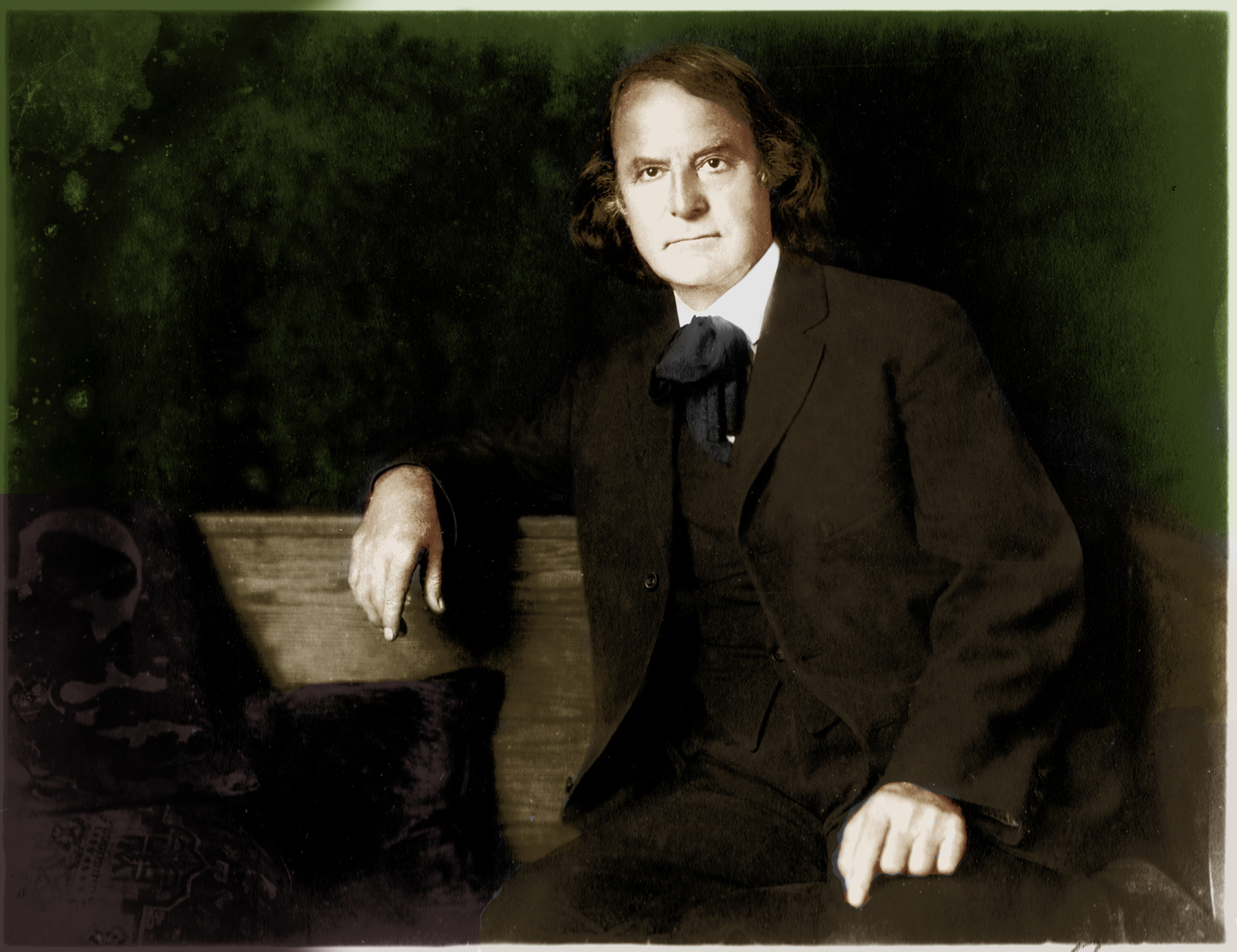 FILOSOFIA